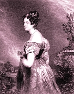 Drawing of Georgina Gordon, Duchess of Bedford Work of art over 150 years old